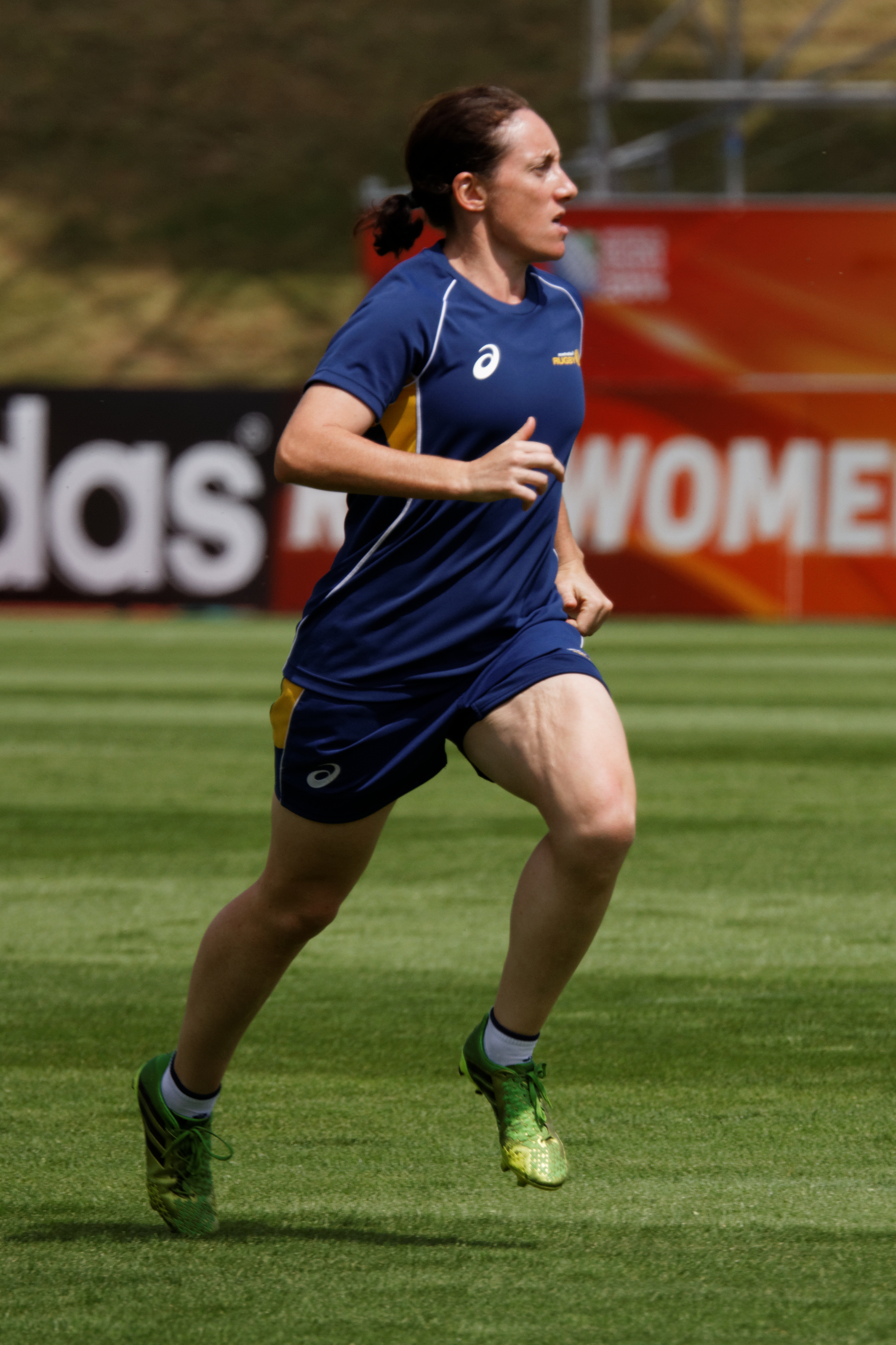 2014 Women's Rugby World Cup